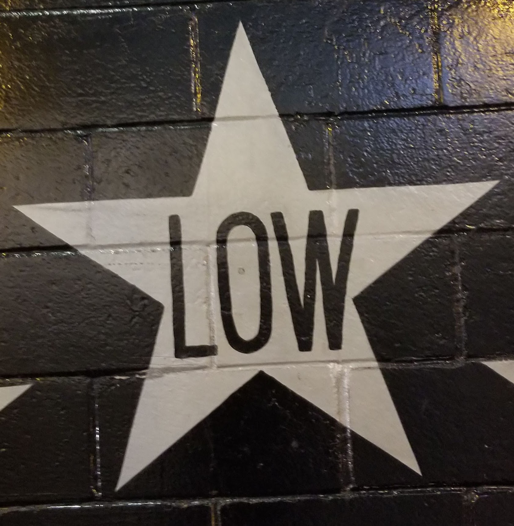 Star representing the band Low on the outside mural of the Minneapolis nightclub First Avenue